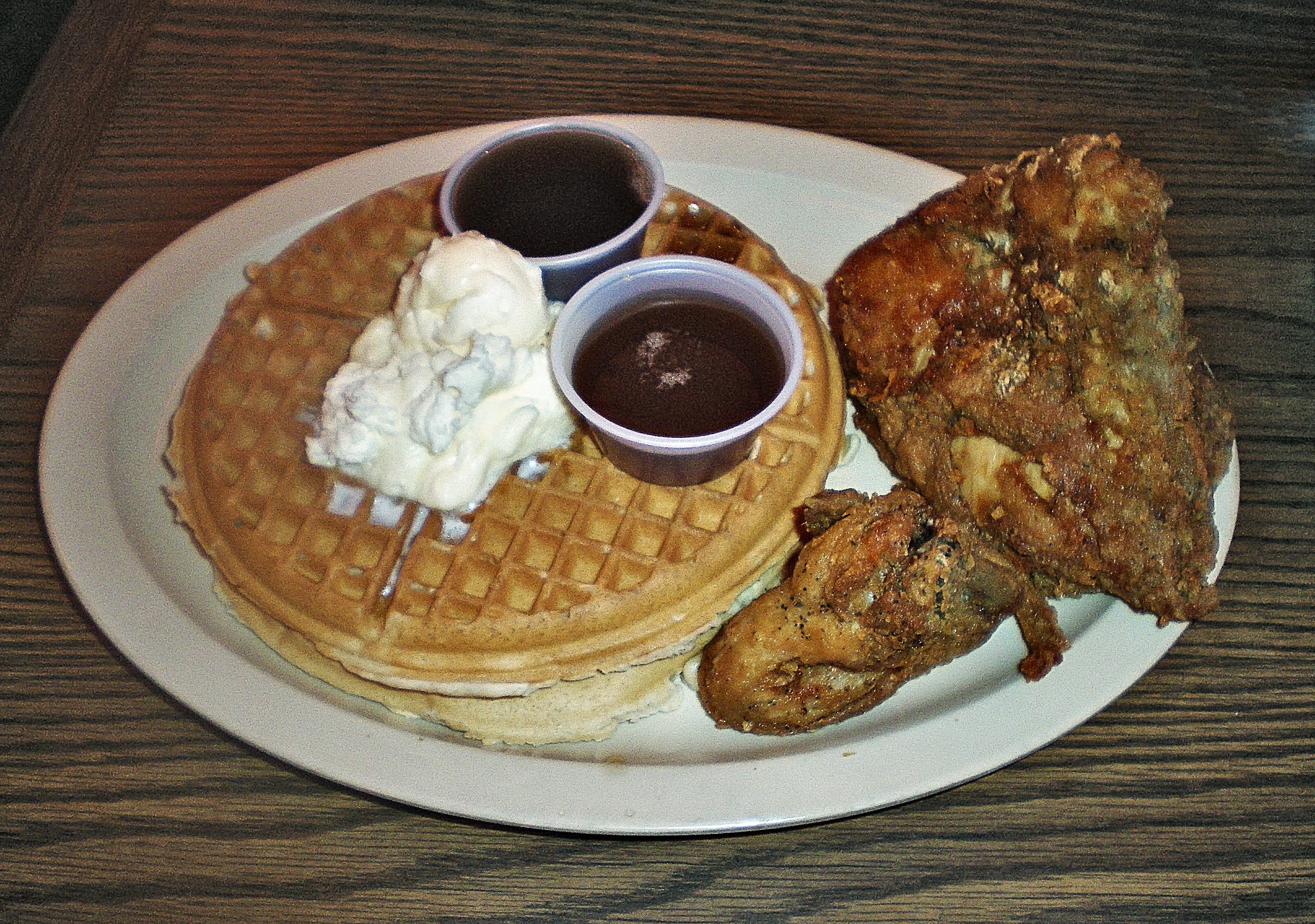 Waffles and Chicken from Roscoe's on Pico Boulevard, Los Angeles Roscoe's on Pico Boulevard, Los Angeles